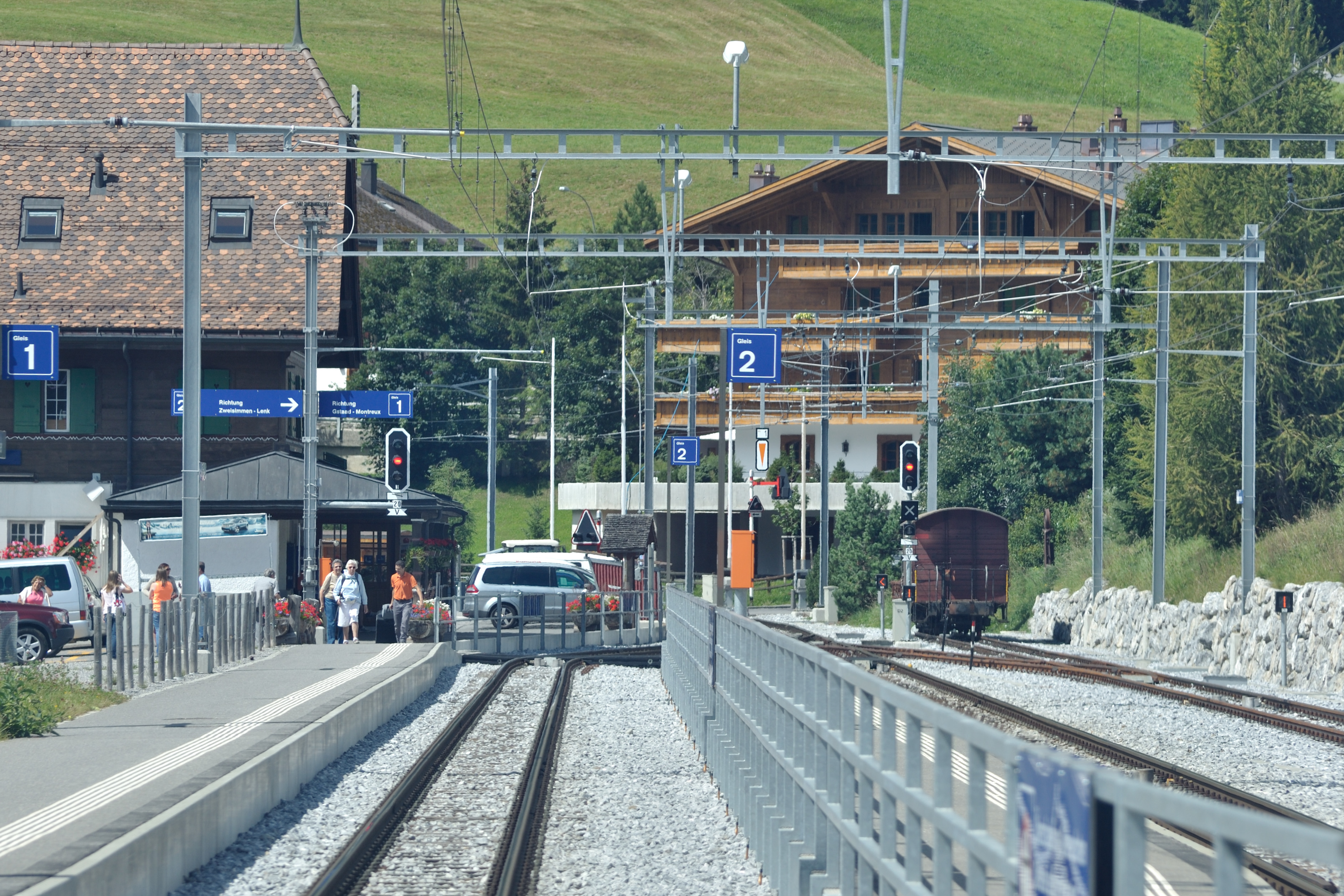 Switzerland, Canton of Bern, impressions from the drivers cabin on the Chemin de fer Montreux Oberland bernois. For exact location see geodata.